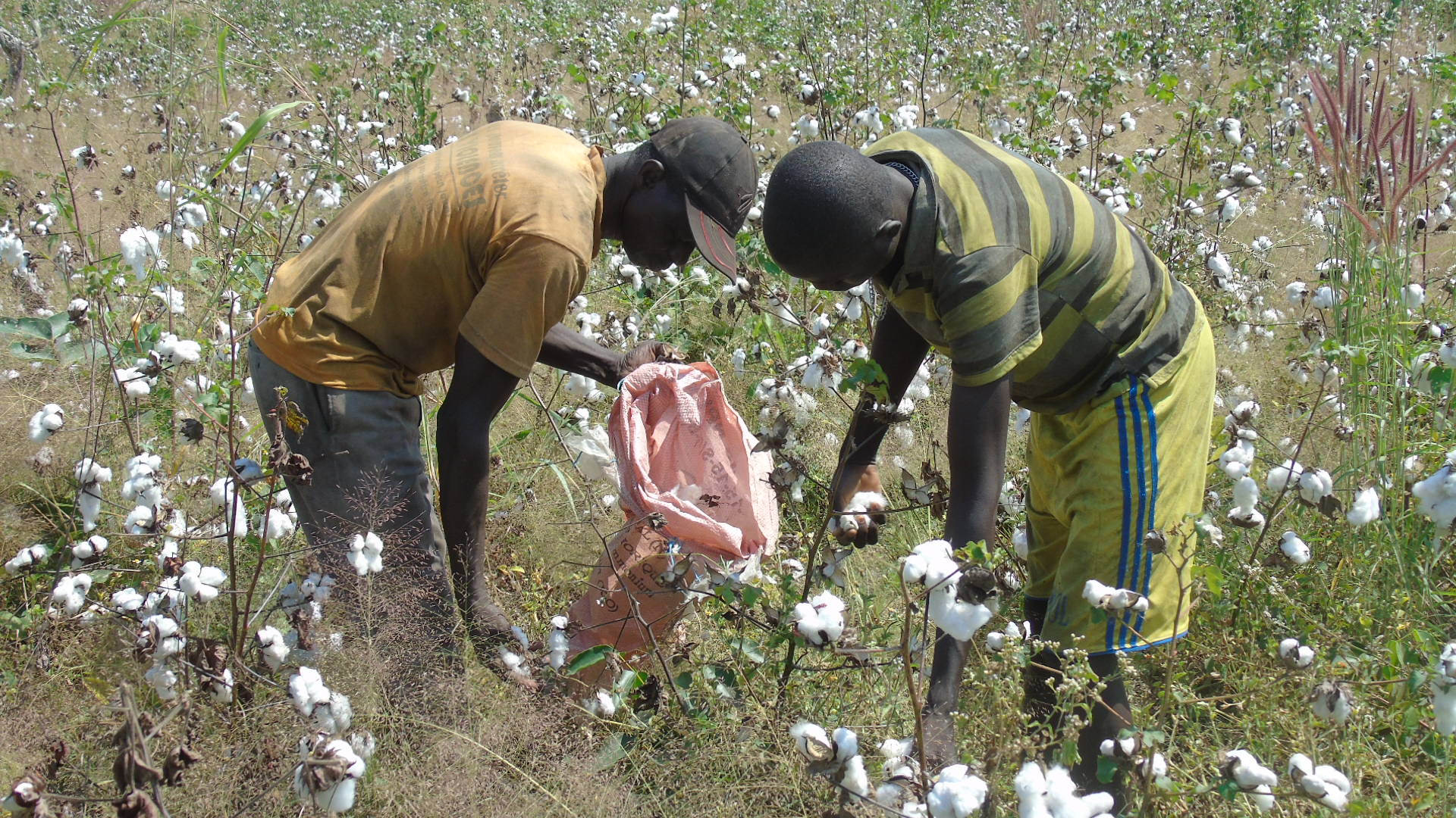 Des cotonculteurs dans le département de Ferké dans nord de la Côte d'Ivoire récoltant du coton en maturité This is an image of "African people at work" from Ivory Coast